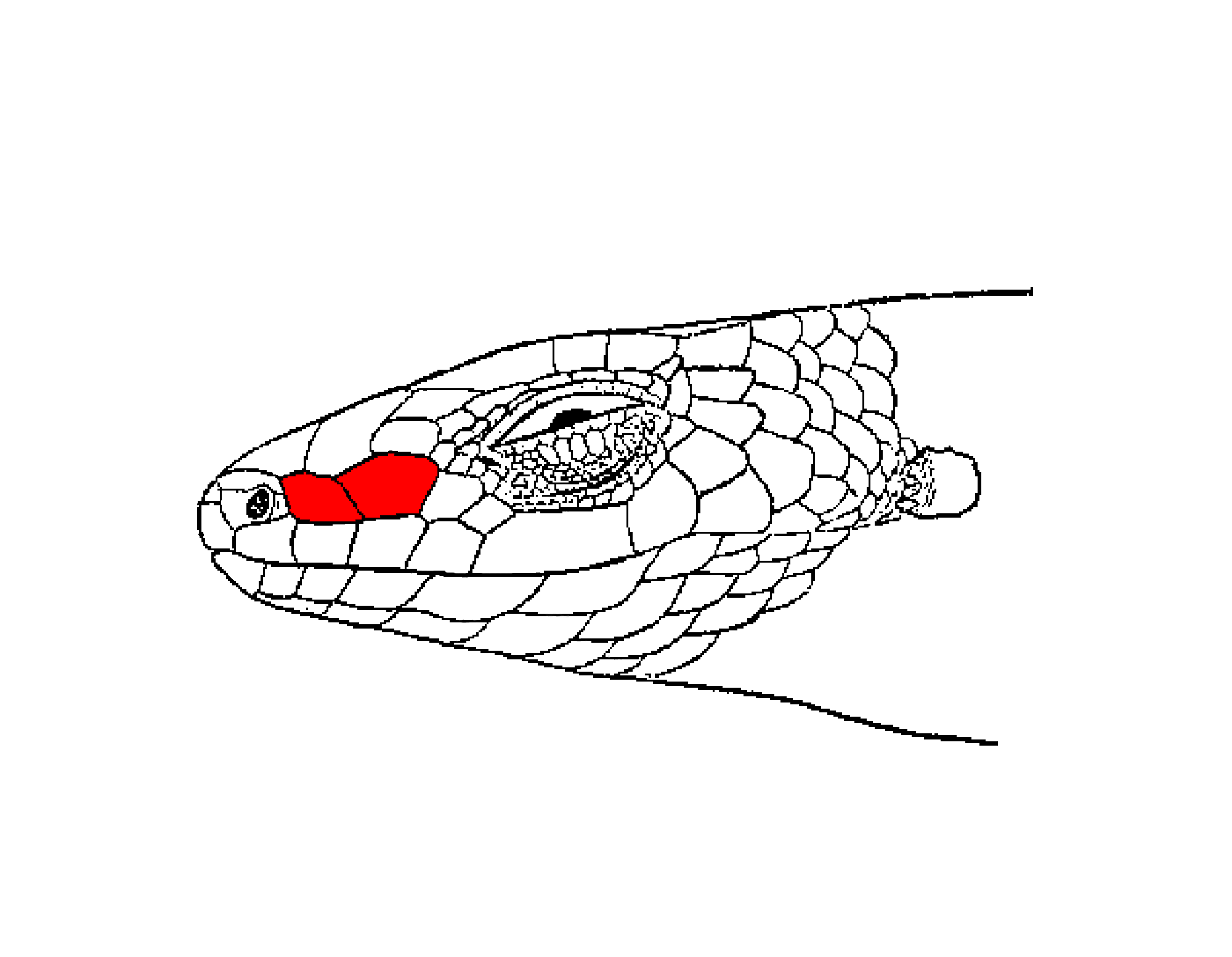 Loreal scales of Mabuya multifasciata in red.